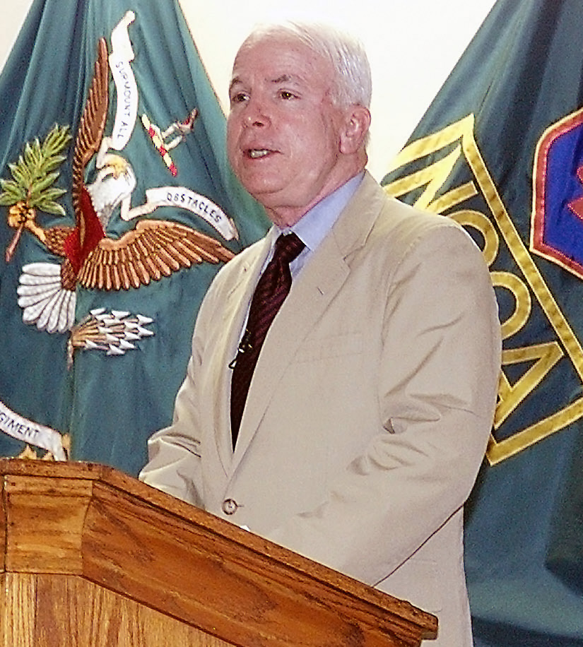 US Senator John McCain III, (R-Arizona) speaks during the USA, Non Commissioned Officer (NCO), Primary Leadership Development Class held at Fort Dix, New Jersey. Location: FORT DIX, NEW JERSEY (NJ) UNITED STATES OF AMERICA (USA)